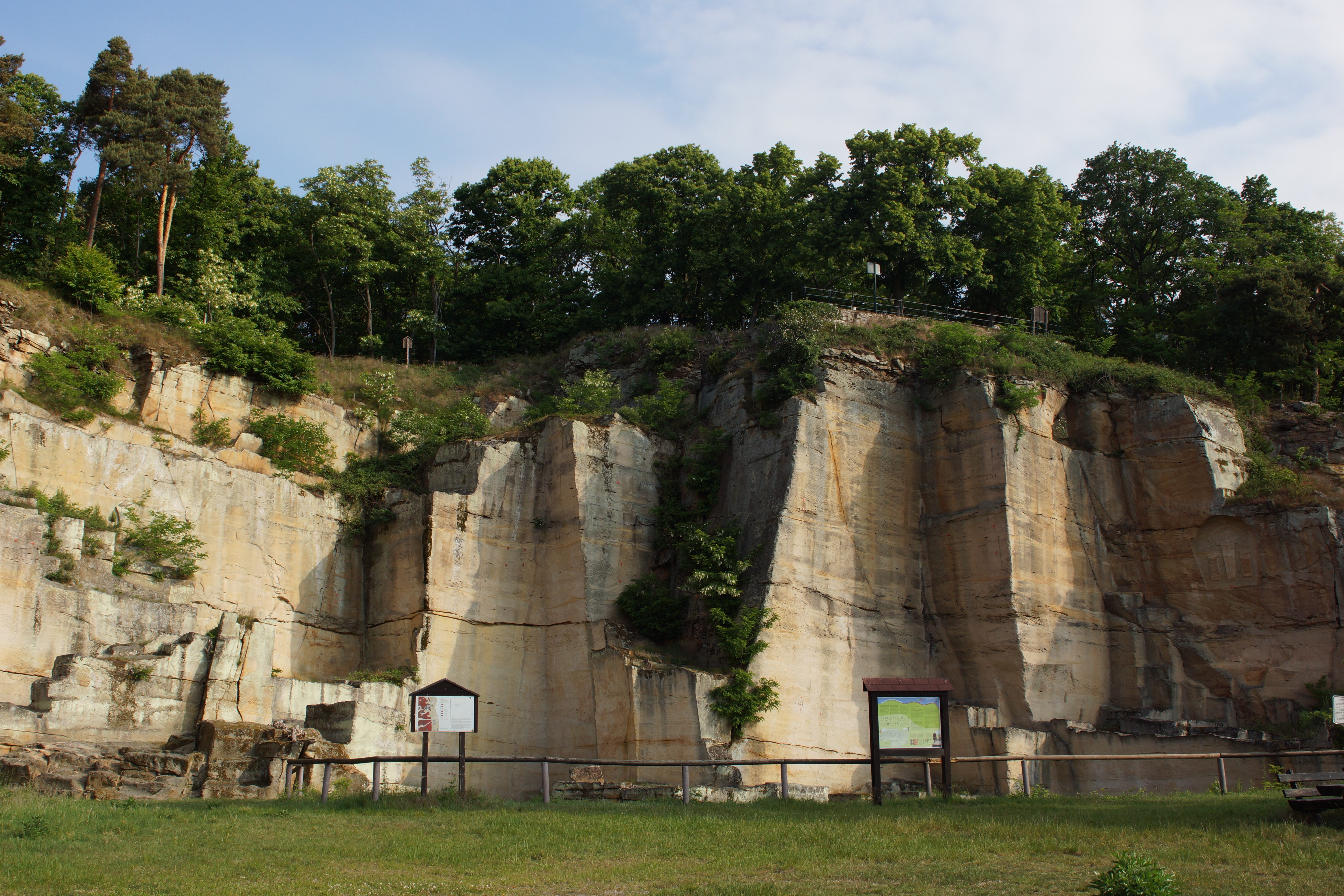 Kriemhildenstuhl Panorama Roman stone quarry at Bad Duerkheim, the Palatinate, Germany